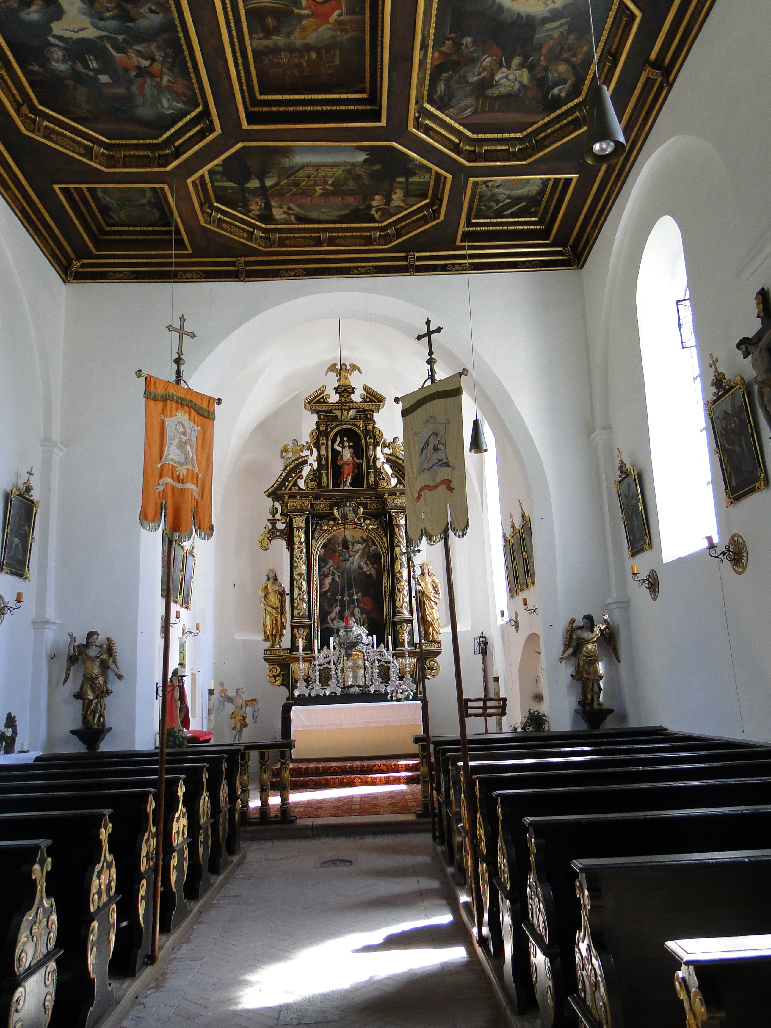 Ex Parrish church of St Mary at Herrenchiensee - Interior